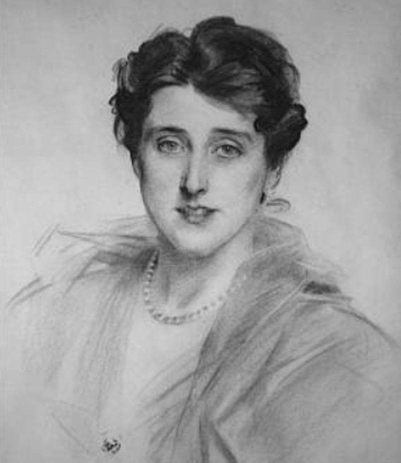 Mary "Maisie" Australie Kelly wife of Admiral Sir John Kelly circa 1910